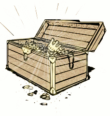 Per the license: These images are public domain. Licensing .